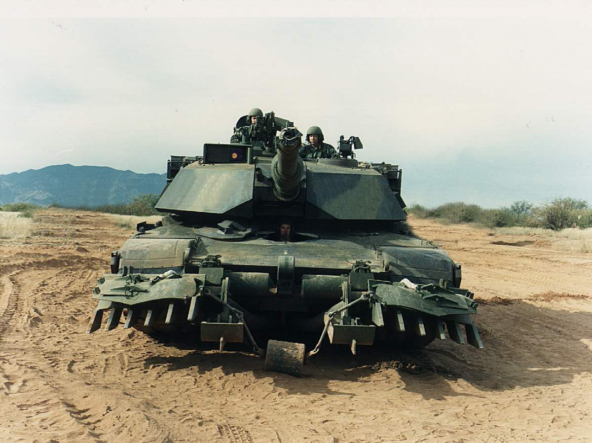 A U.S. Army M-1A1 Abrams main battle tank is equipped with a mine plow which is designed to push mines out of the tank's path, clearing a lane for other vehicles to follow. The Army's 1st Armored Division will deploy mine plows such as these to Bosnia and Herzegovina for NATO's Operation Joint Endeavor.